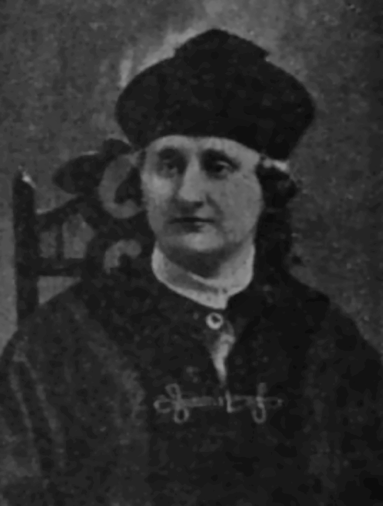 Pirmoji Nepriklausomos Lietuvos moteris teisėjas